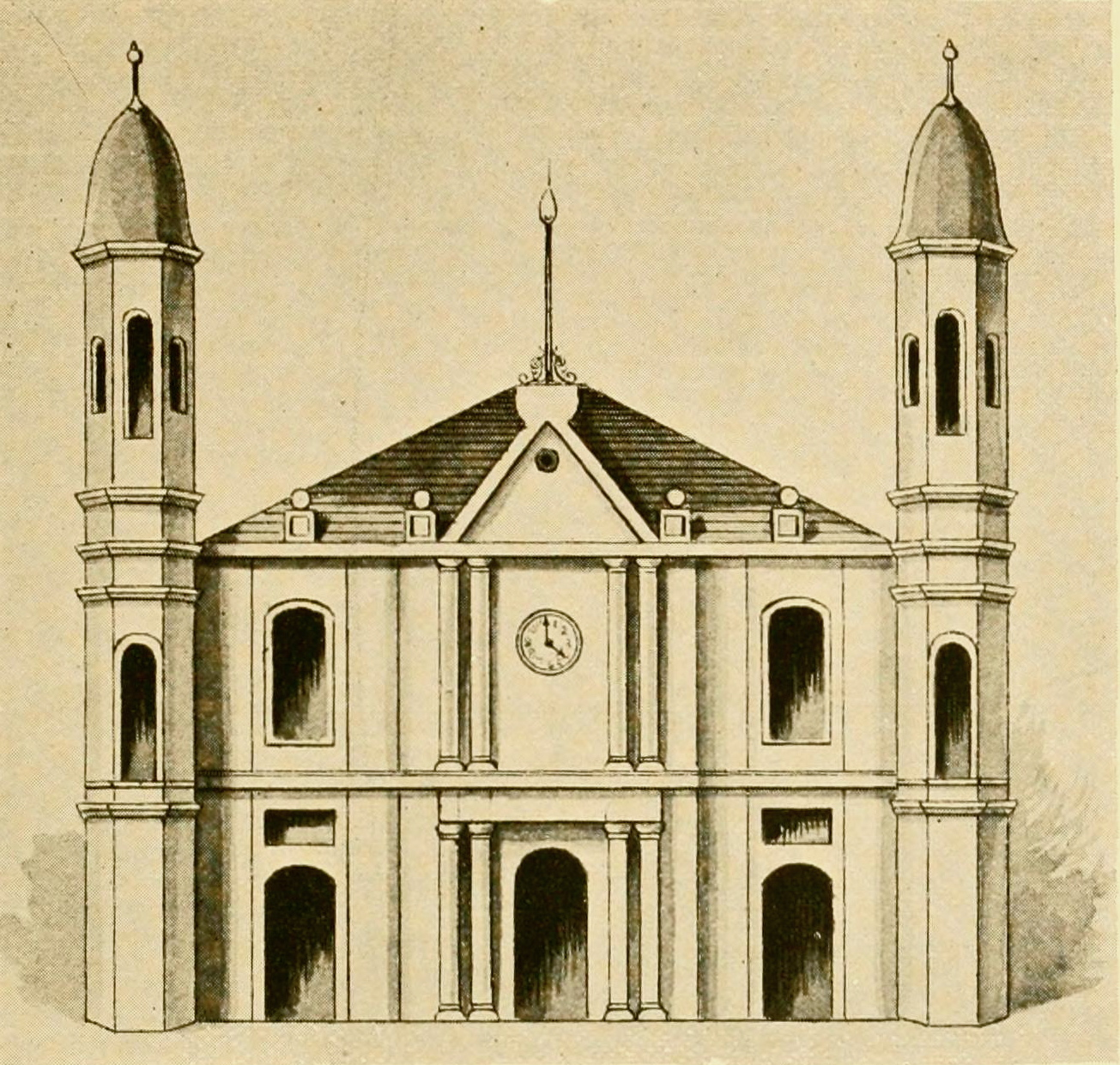 St. Louis Church (not yet a cathedral), New Orleans, 1794. From an old architectural drawing in the city library.